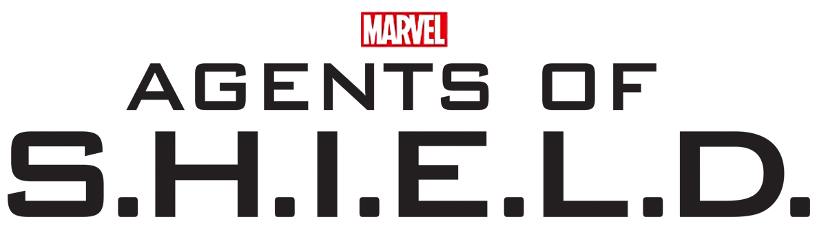 Agents of Shield logo,is an American television series created for ABC